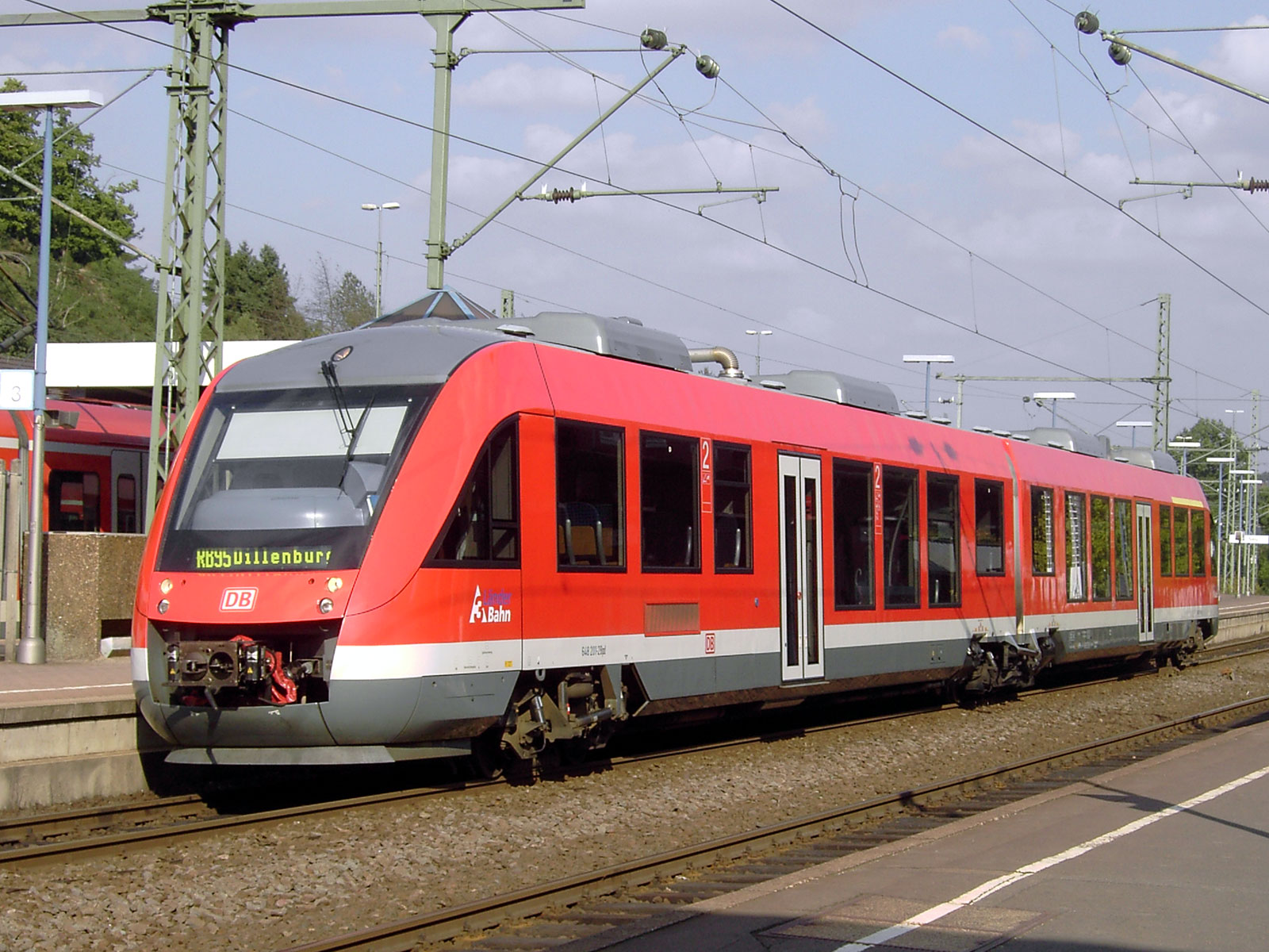 LINT DMU at Au(Sieg) station. own photo